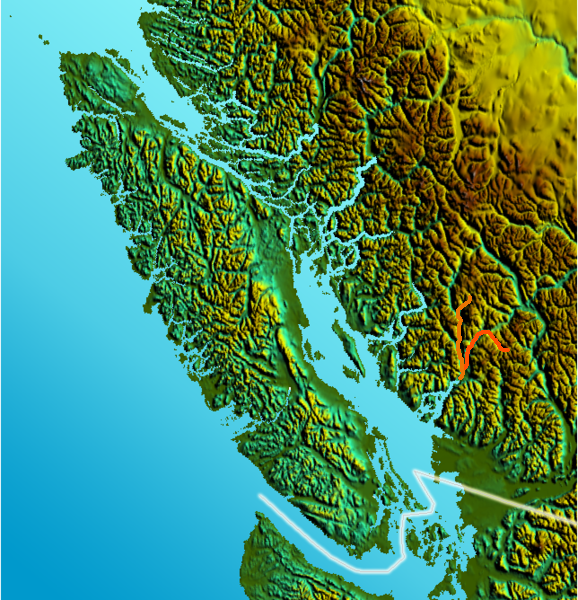 based on 578px-Vancouver_Island-relief.png which is in Wikimedia Commons